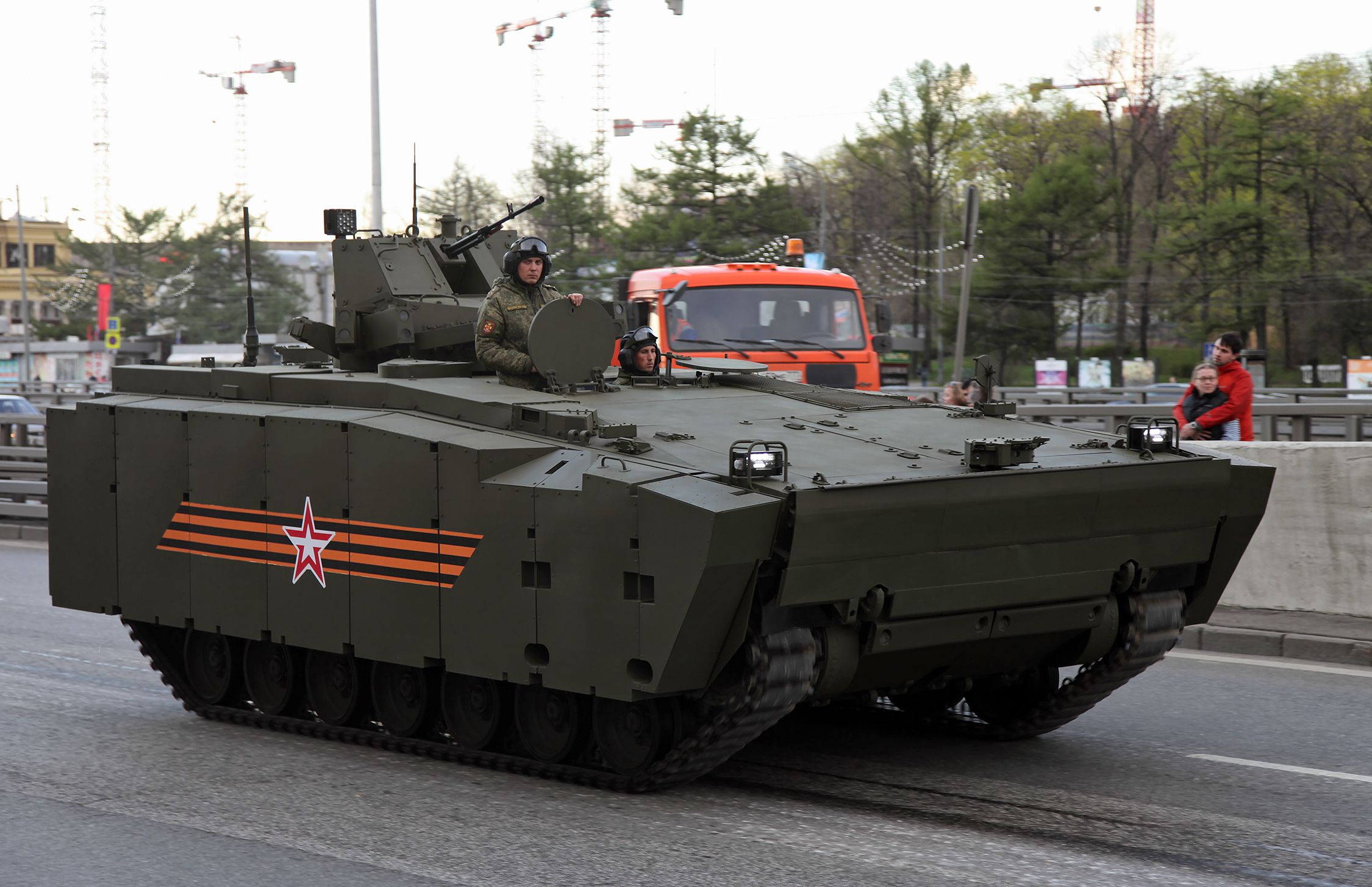 Armoured personnel carrier object 693 Kurganets-25